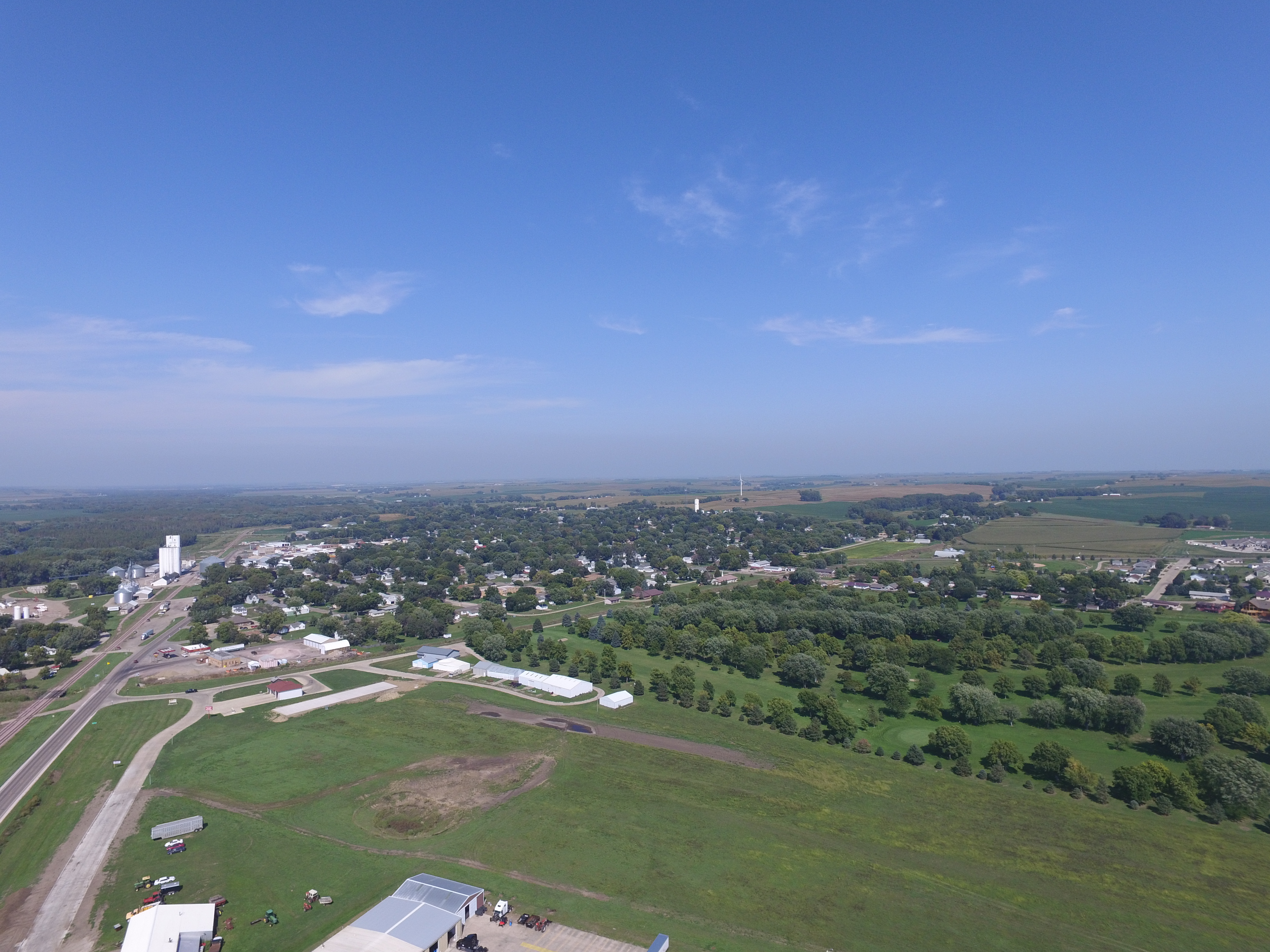 A majority of Akron, IA taken from the industrial park on the south edge of town.